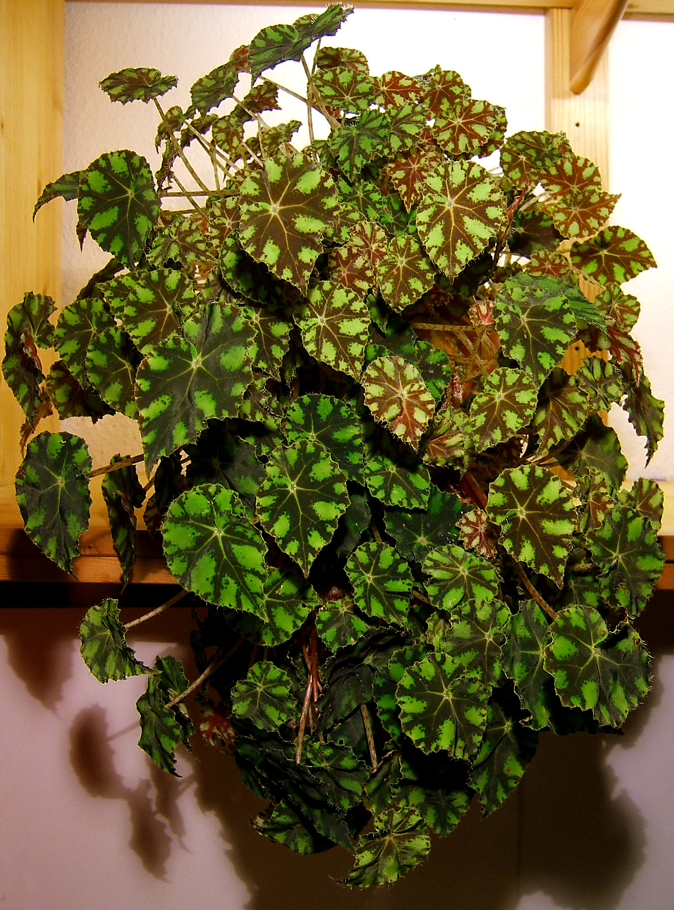 eyelash begonia